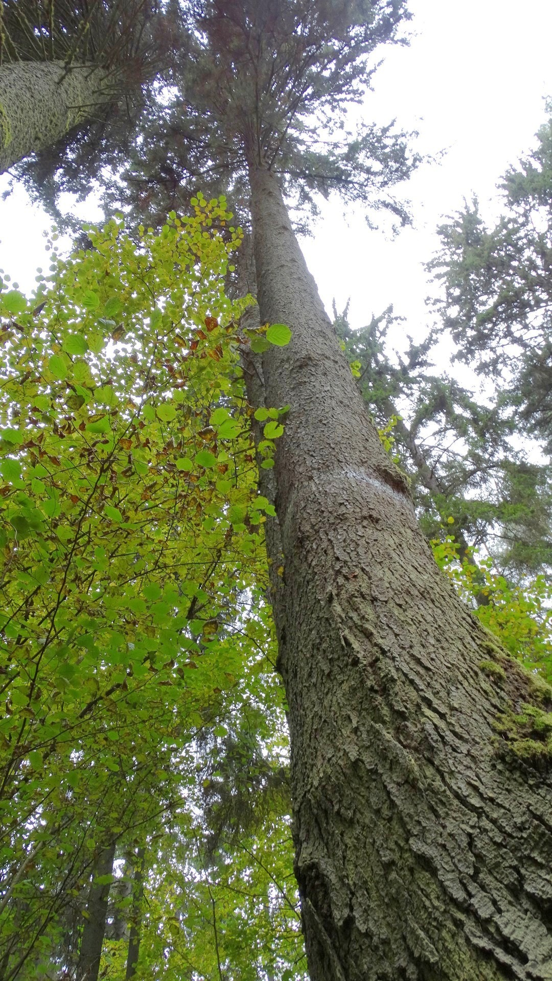 The highest spruce tree, Noriūnai forest, Alytus district, Lithuania